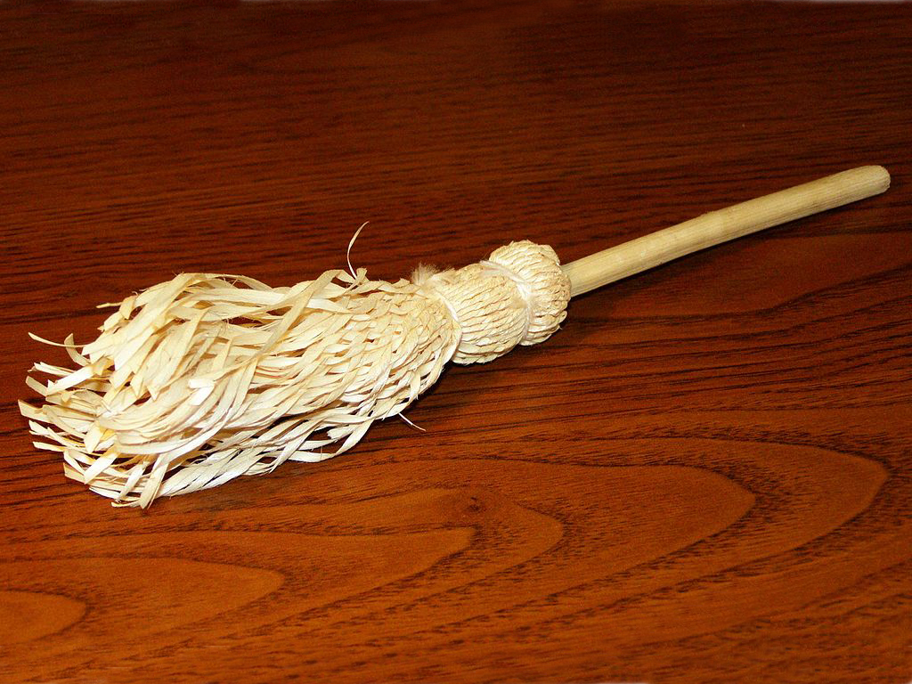 Aspergillum